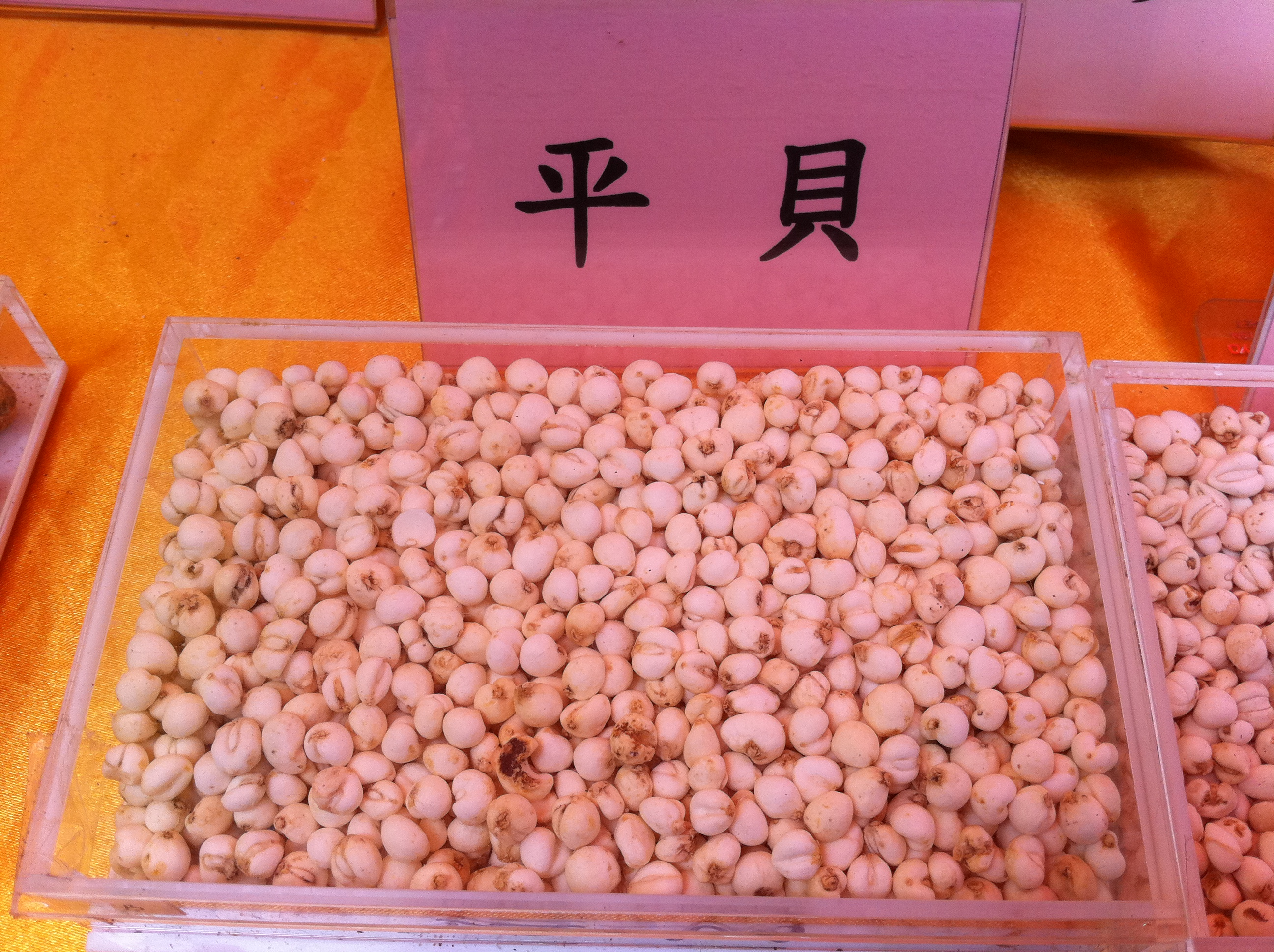 香港中藥聯商會 Medical exhibits - 平貝母, Samples of herbal medicine